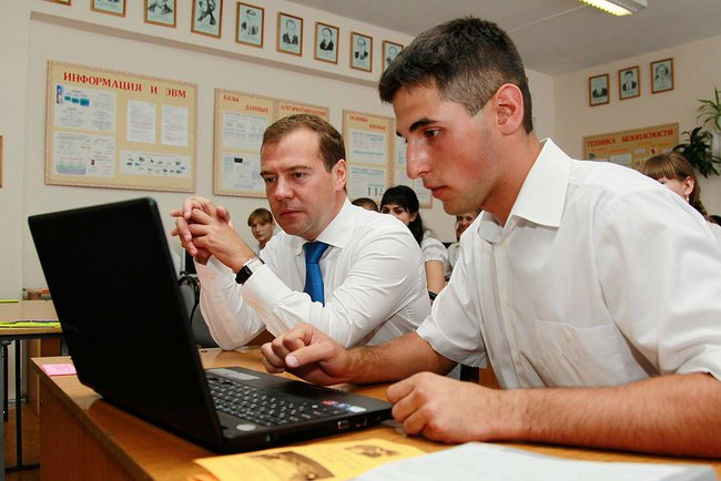 During a visit to the secondary school № 19 in the village Verhnerusskoe, Dmitry Medvedev visited an eleventh-grade class.